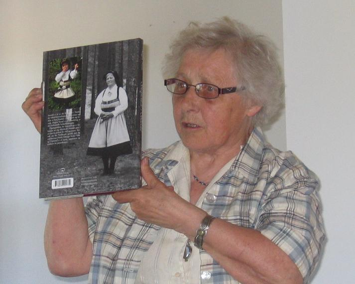 Aagot Noss, Norwegian writer